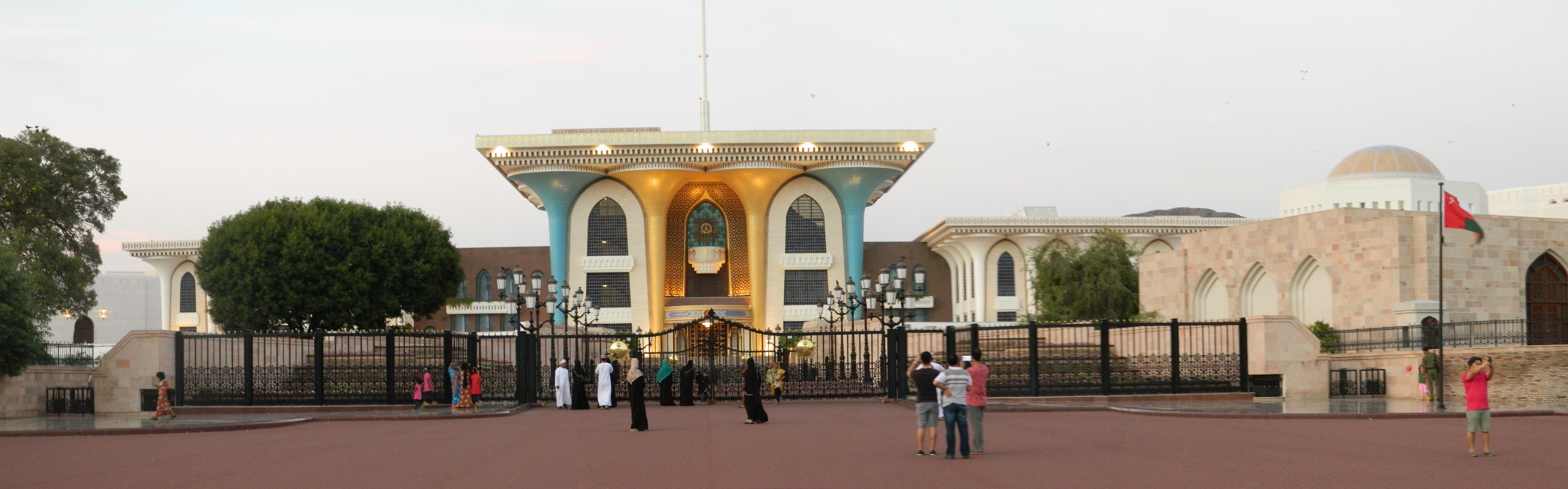 Qasr Al Alam Royal Palace in Masqat, Oman